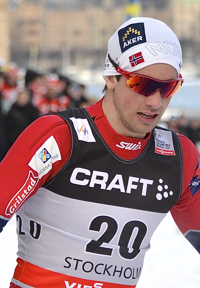 Tomas Northug at Royal Palace Sprint in Stockholm March 20, 2013